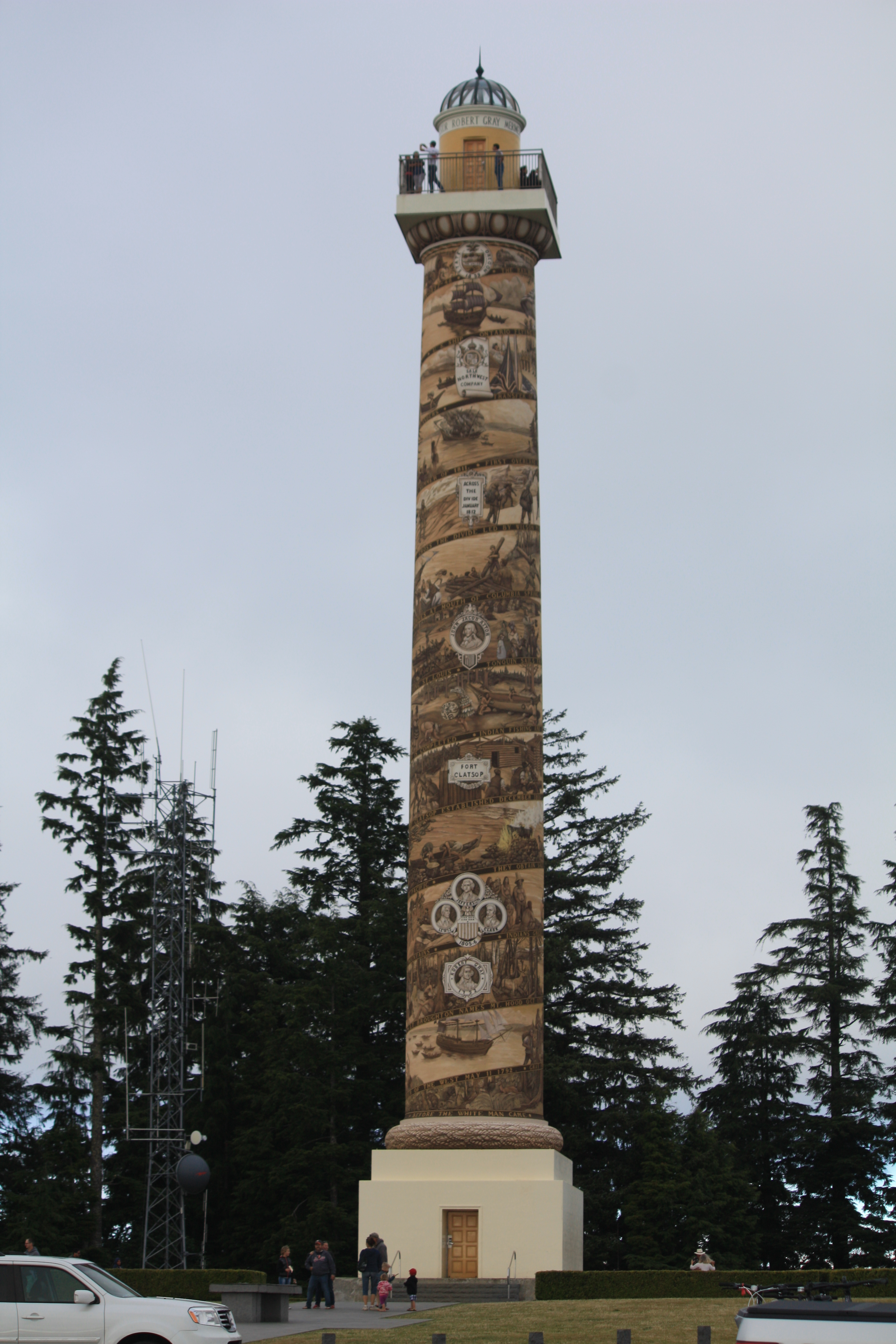 Astoria Tower in Astoria, Oregon taken of the west face.